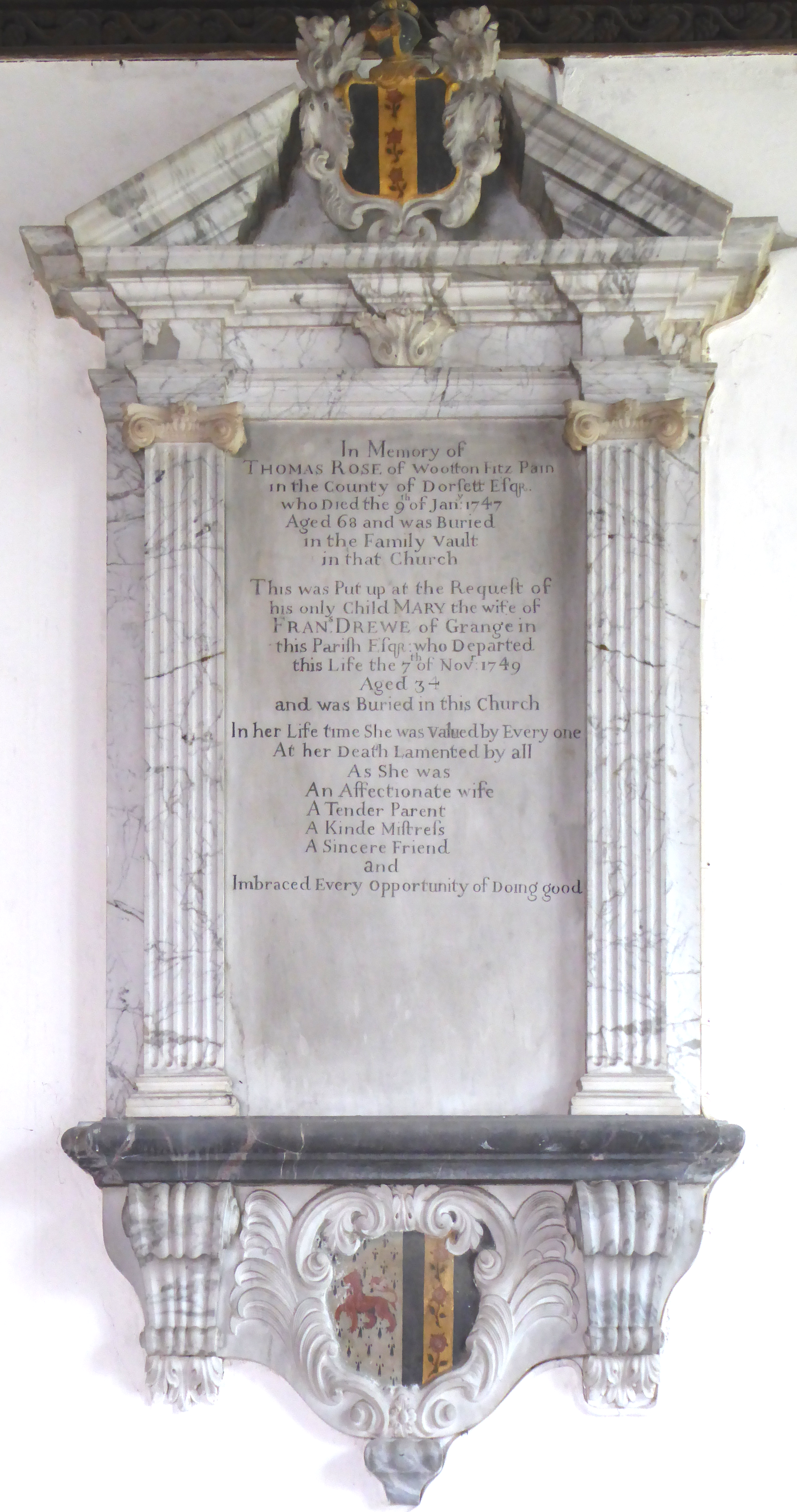 Mural monument in Broadhembury Church, Devon, to Thomas Rose (1679-1747) of Wootton House in the parish of Wootton Fitzpaine in Dorset, Sheriff of Dorset in 1715. Showing top: canting arms of Rose: Sable, on a pale or three roses gules slipt and leaved proper; Crest at top: A rose slipped and leaved; bottom: Drewe (Ermine, a lion passant gules) impaling Rose. Inscribed as follows: "In memory of Thomas Rose of Wootton FitzPain in the county of Dorsett, Esqr, who died the 9th of Jan'y 1747 aged 68 and was buried in the family vault in that church. This was put up at the request of his only child Mary, the wife of Fran(ci)s Drewe of Grange in this parish, Esqr, who departed this life the 7th of Nov'r 1749 aged 34 and was buried in this church. In her life time she was valued by every one, at her death lamented by all, as she was an affectionate wife, a tender parent, a kinde mistress, a sincere friend and imbraced every opportunity of doing good"